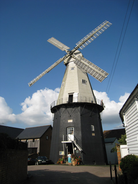 Cranbrook Union Windmill, Russells Yard, Cranbrook, Kent